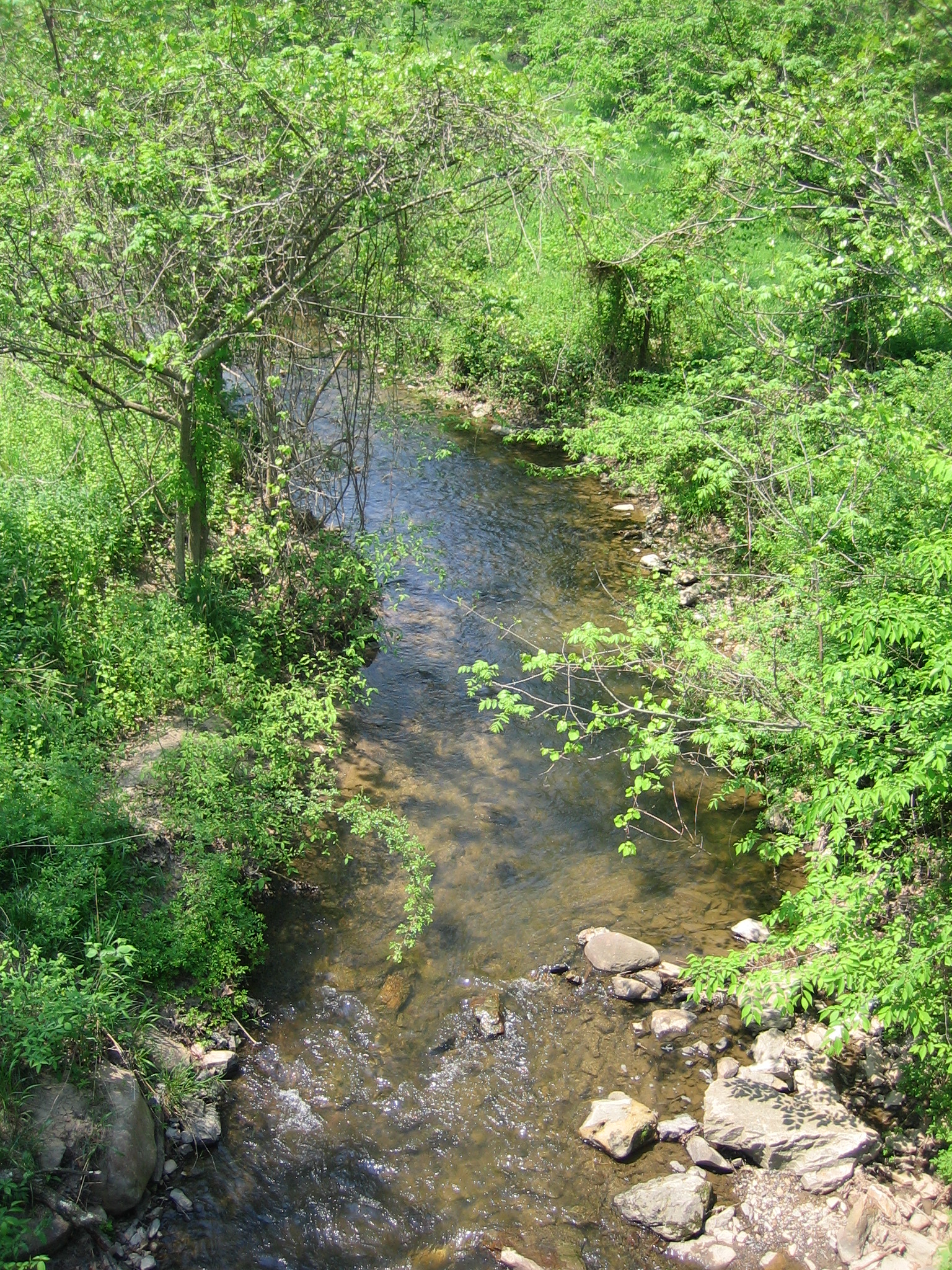 Dillons Run at Capon Bridge, West Virginia, United States.